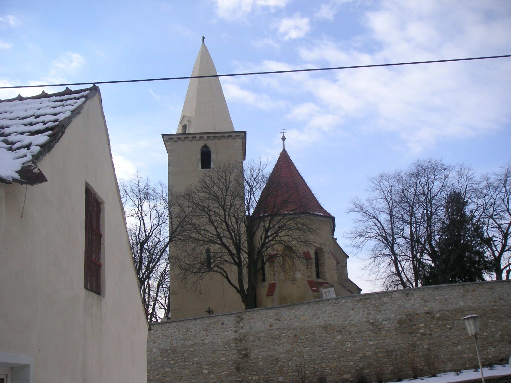 Church in Altlichtenwarth, Lower Austria